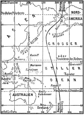 a map of the International Date Line in 1891